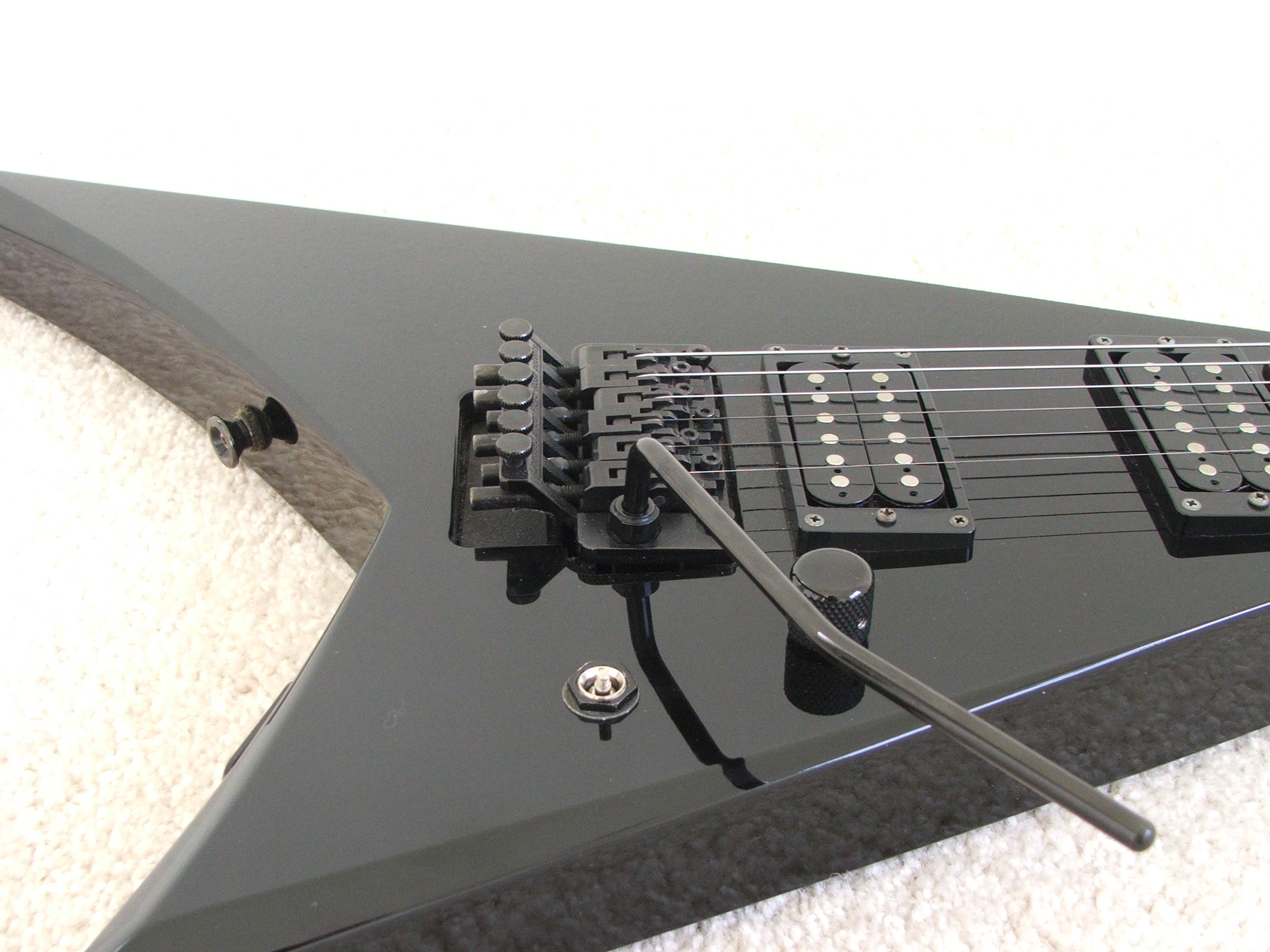 Jackson Randy Rhoads JS20 guitar, made in 1999.